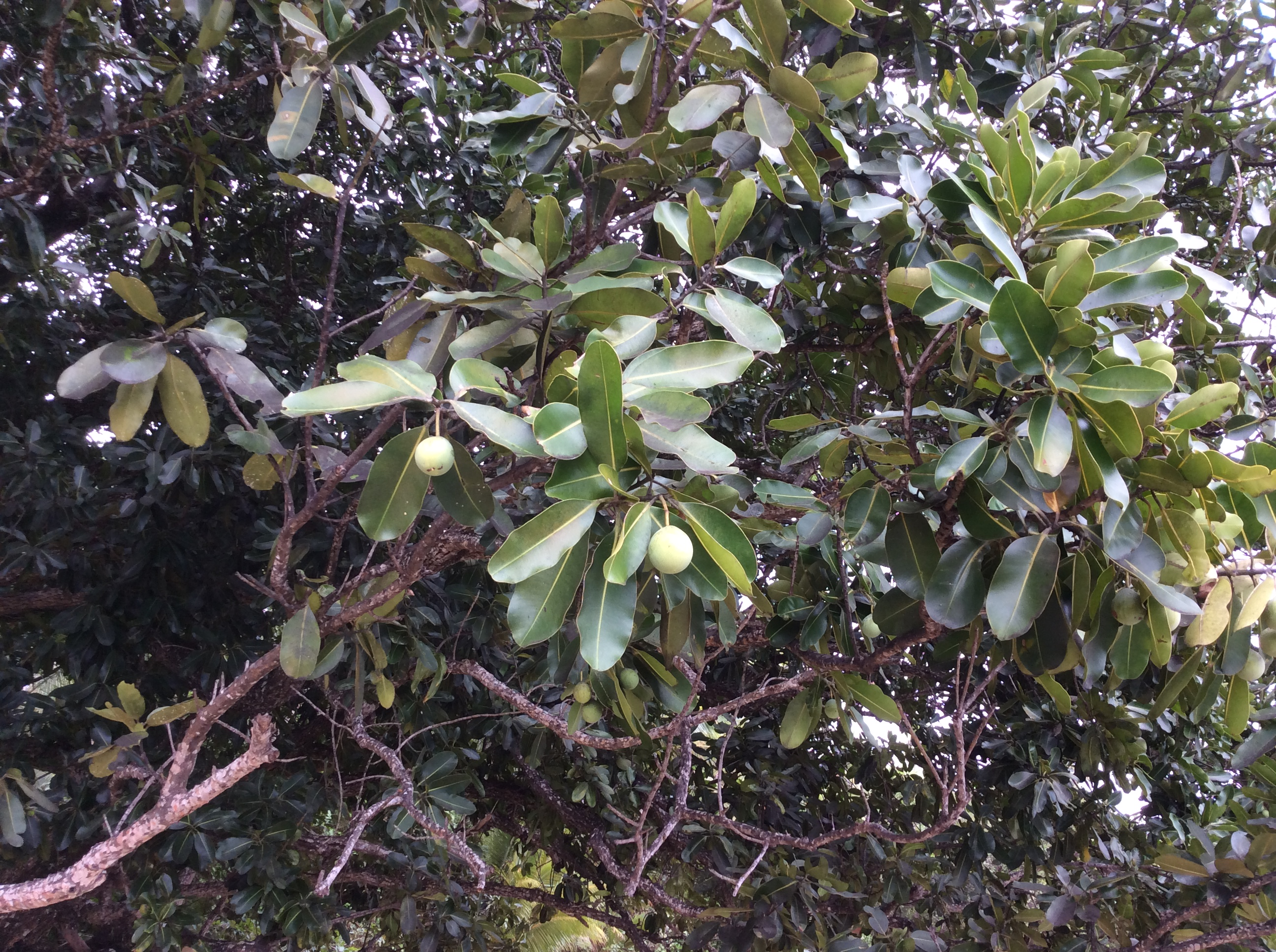 Fruits of Calophyllum inophyllum, Lawaki on Beqa Island, Fiji